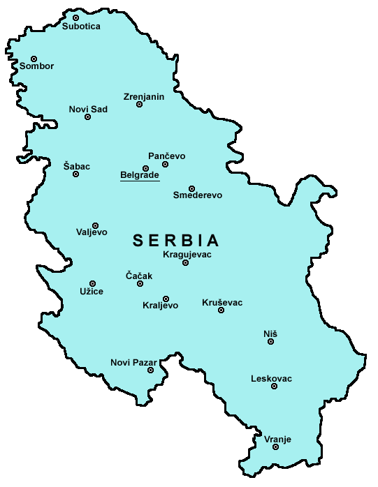 Map of Serbia with marked locations of major cities (Kosovo excluded).